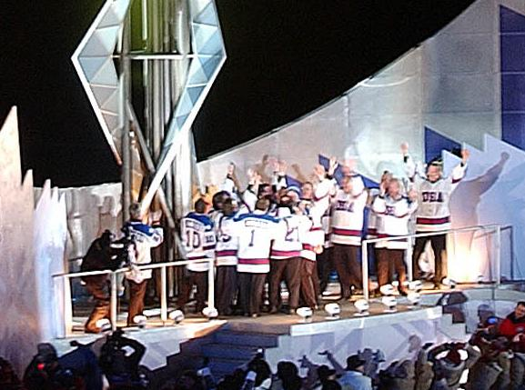 Salt Lake City, UT (Feb. 8, 2002) -- Members of the 1980 Gold Medal U.S. Olympic hockey team stand below the Olympic flame at Rice-Eccles Olympic Stadium during the opening ceremonies of the 2002 Winter Olympics in Salt Lake City. The team had the honor of lighting the cauldron to invoke the official start of the competition. U.S. Navy photo by Journalist 1st Class Preston Keres.